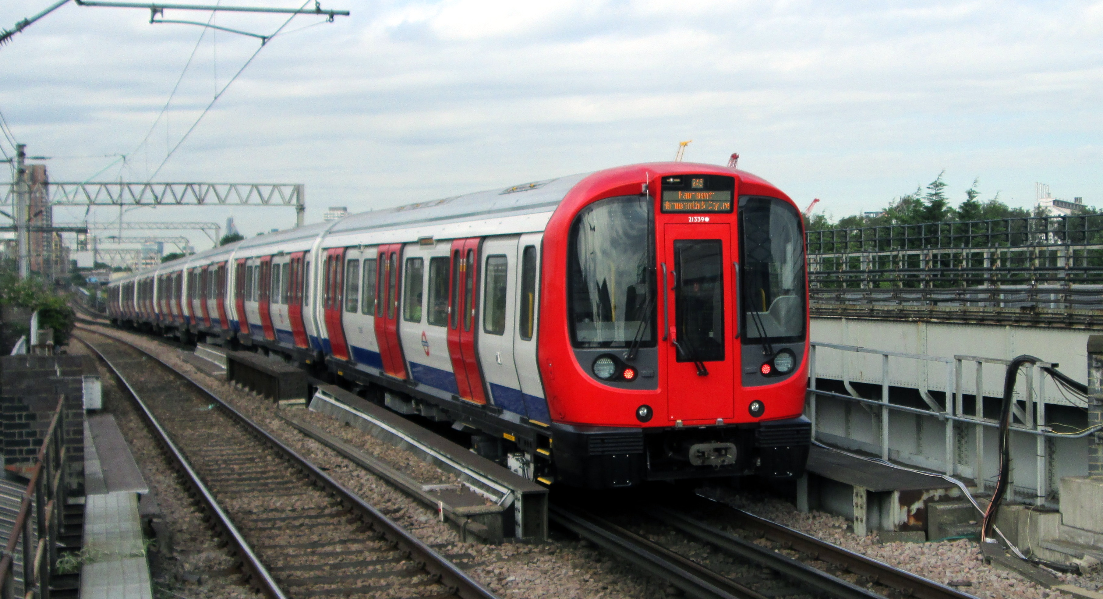 London Underground S7 Stock leaving West Ham station in July 2013. Having been introduced in 2012, the S7 Stock is the newest train on the London Underground network. The S7 stock, along with the S8 stock (which was introduced in 2010), is one of two subtypes of the London Underground S Stock. Other than differences in the number of coaches (the S7 stock has 7 coaches while the S8 stock has 8), the interior layouts are different - The S8 stock contains a mixture of longitudinal and transverse seating, while the S7 stock contains transverse seating only. Both trains are air-conditioned (being the first trains on the network to feature air conditioning) and have gangways that allow passengers to safely move between carriages while the train is moving, unlike older trains on the network. The S8 stock is used on the Metropolitan line and was ordered to replace the A stock on that line - the A stock reached 50 years of service in 2011 and was therefore the first stock to be replaced, the final A stock withdrawal happening in 2012. The S7 stock is used on the Circle, District and Hammersmith and City lines and was ordered to replace the C stock and D stock on those lines. The older C stock was replaced first since the D stock was extensively refurbished in the mid 2000s and the C stock was described as being "in an increasingly poor state". The final C stock withdrawal happened in 2014 and the D stock is to be replaced by the end of 2016.